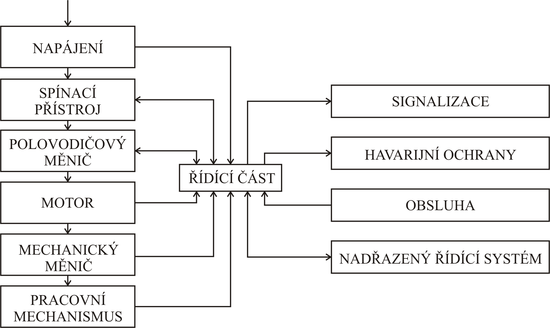 Block diagram of electric drive